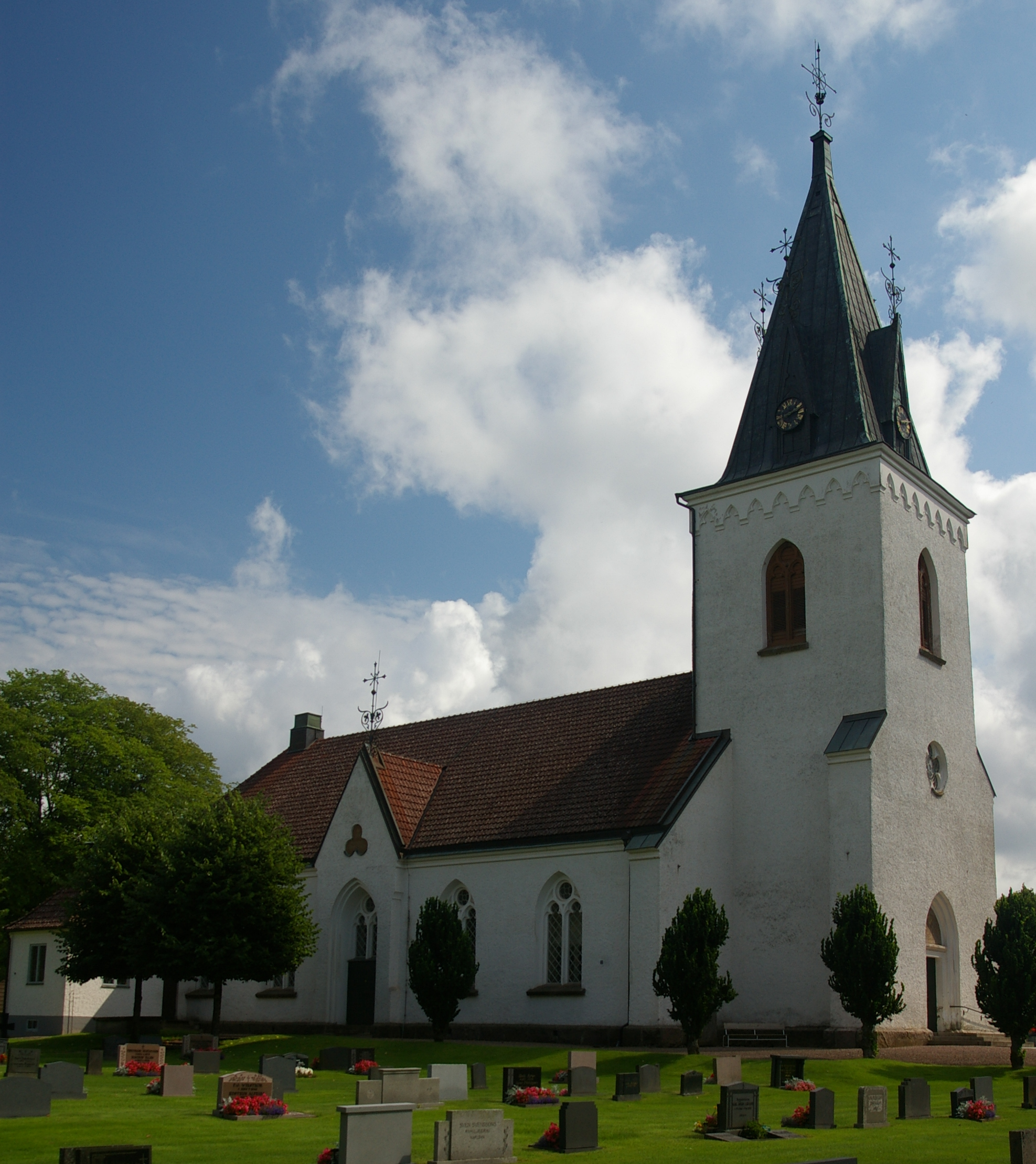 Åsarp-Smula kyrka (Swedish:Church of Åsarp-Smula) in Västergötland, Sweden.